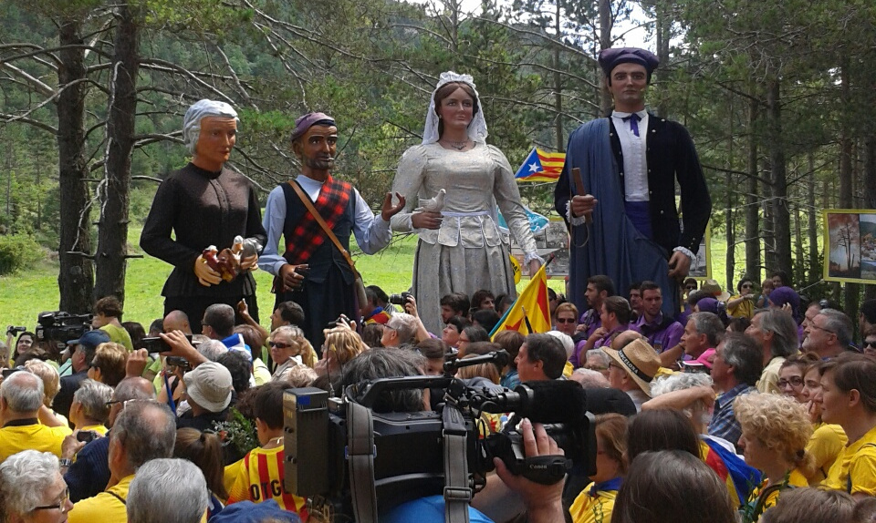 Gegants at 2014 annual Pi de les Tres Branques gathering